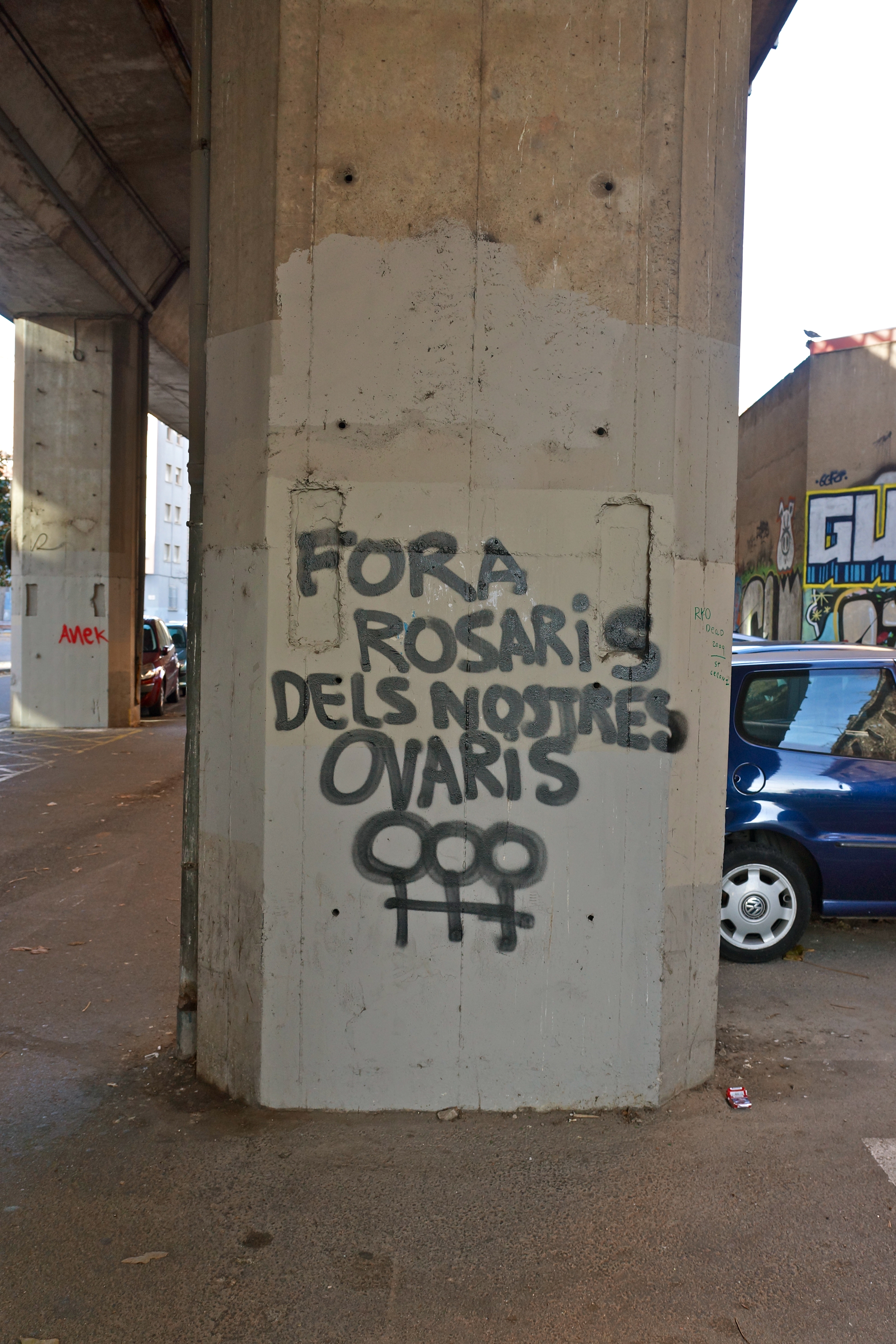 Girona, Catalonia: Graffiti in the Santa Eugènia Street, against de proposal of law (2013) to prohibit abortion